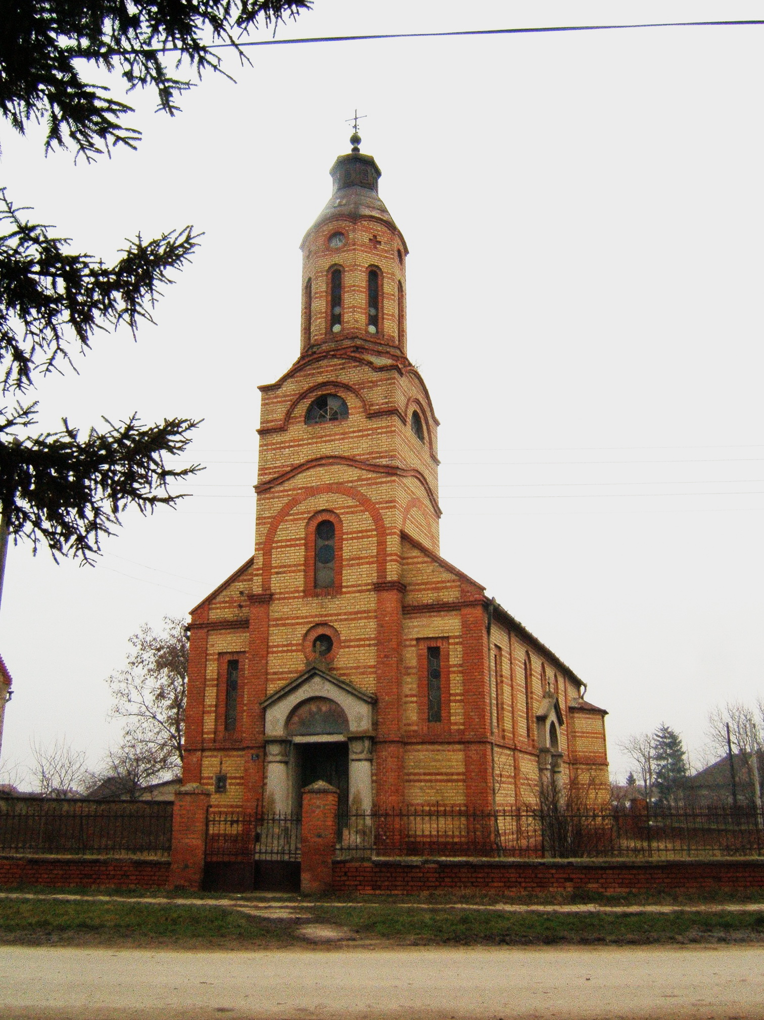 Serbian Orthodox church of the Ascension of the Lord in Šurjan